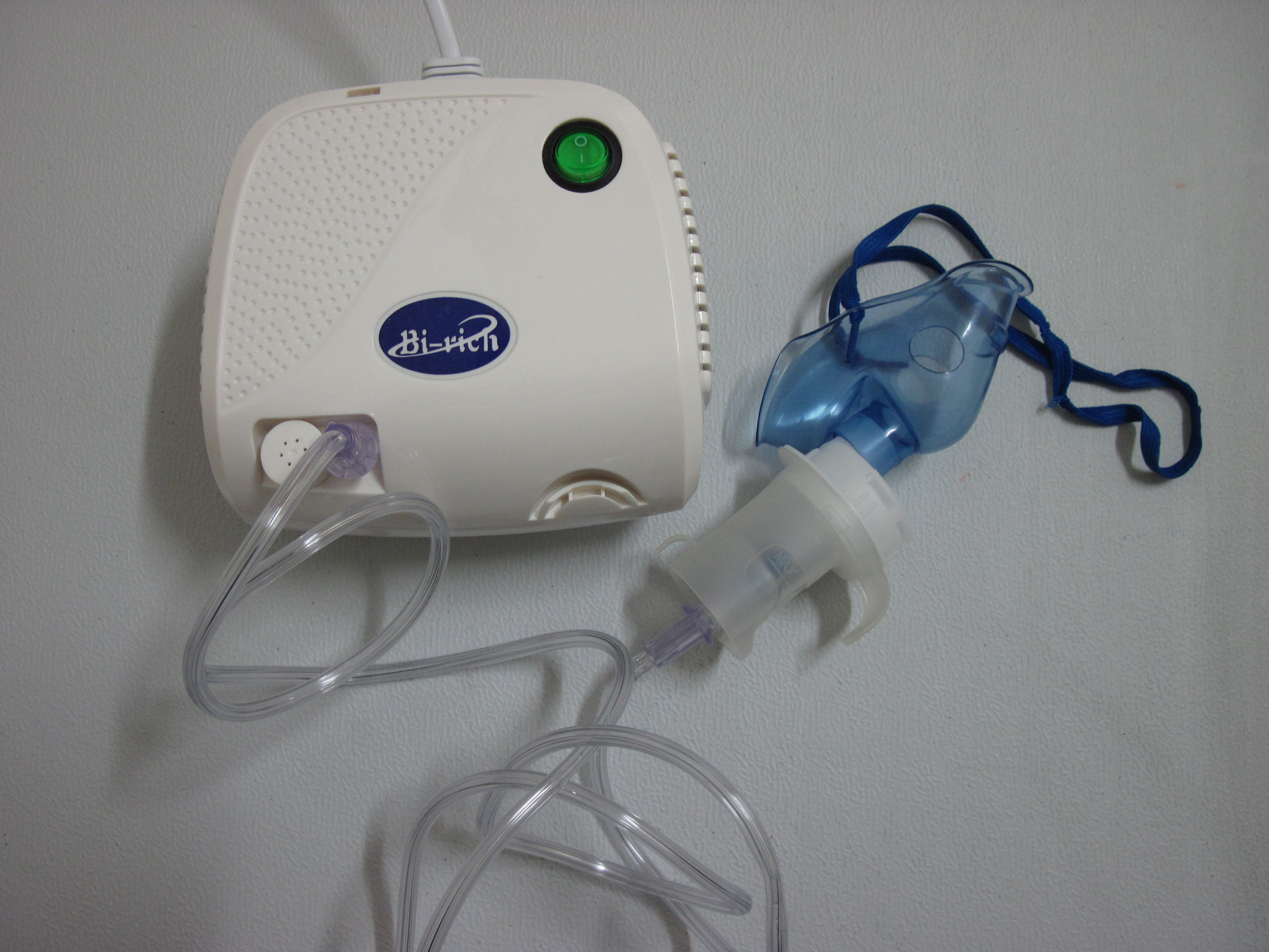 Compressor